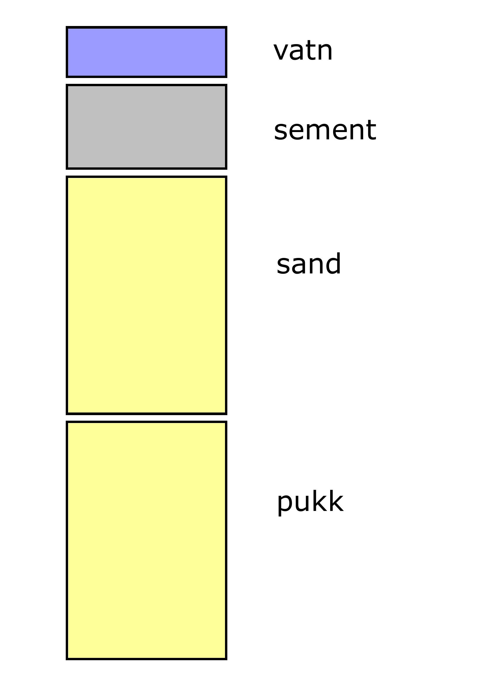 This is the file ConcreteComponents.jpg by JohnM with norwegian (nynorsk) captions. It shows the relative volume of the main components of concrete. My own modification, Kjetil Lenes